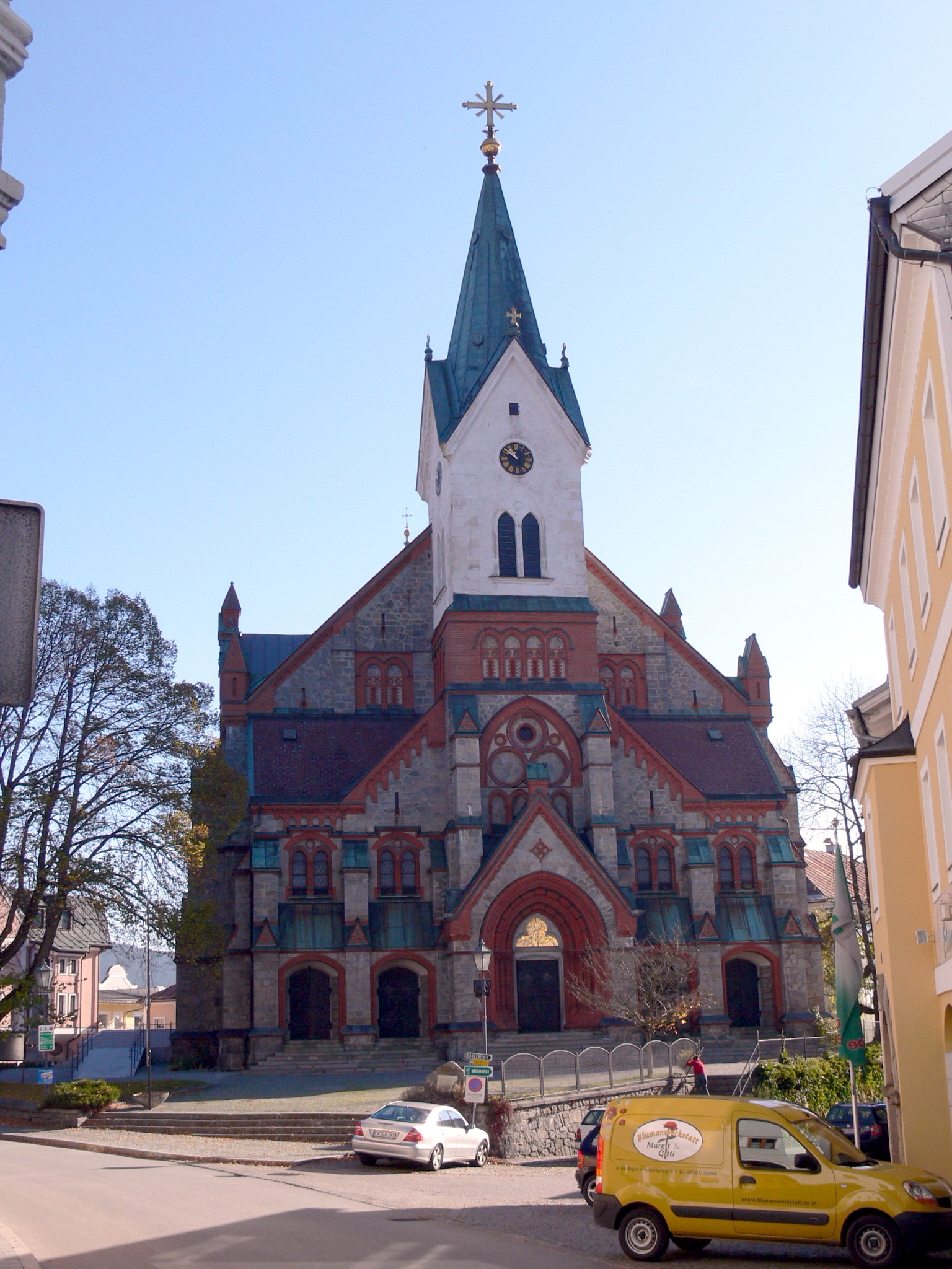 Aigen - parish church of Saint John the Evangelist: Facade.